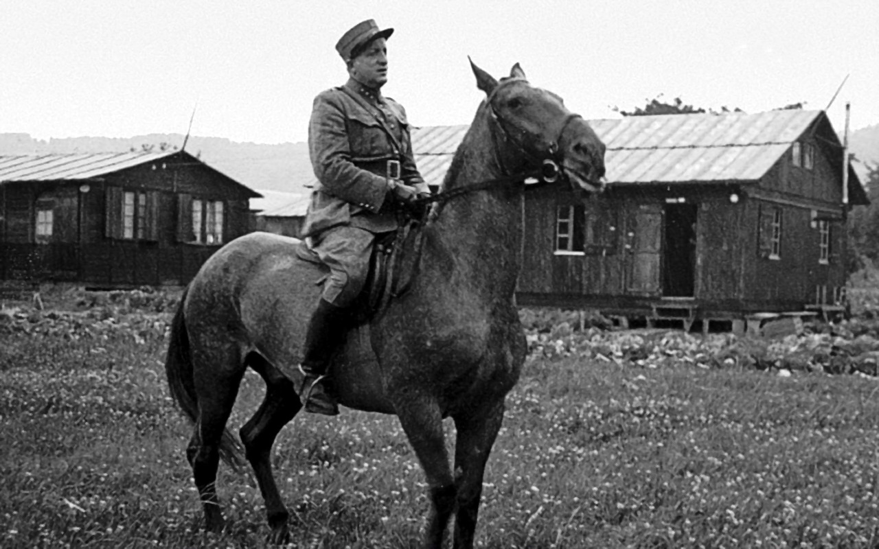 Wauwilermoos internment camp, commandant Béguin in the camp area probably in 1944, Egolzwil-Wauwil, Canton of Luzern.